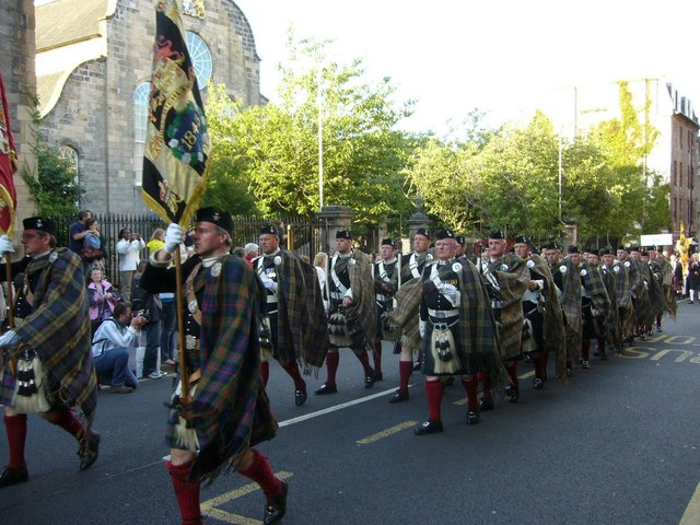 International Clan Gathering 2009 The Atholl Highlanders, the United Kingdom's only legal private army, raised by the Duke of Atholl, lead the parade up the Royal Mile to the Castle.